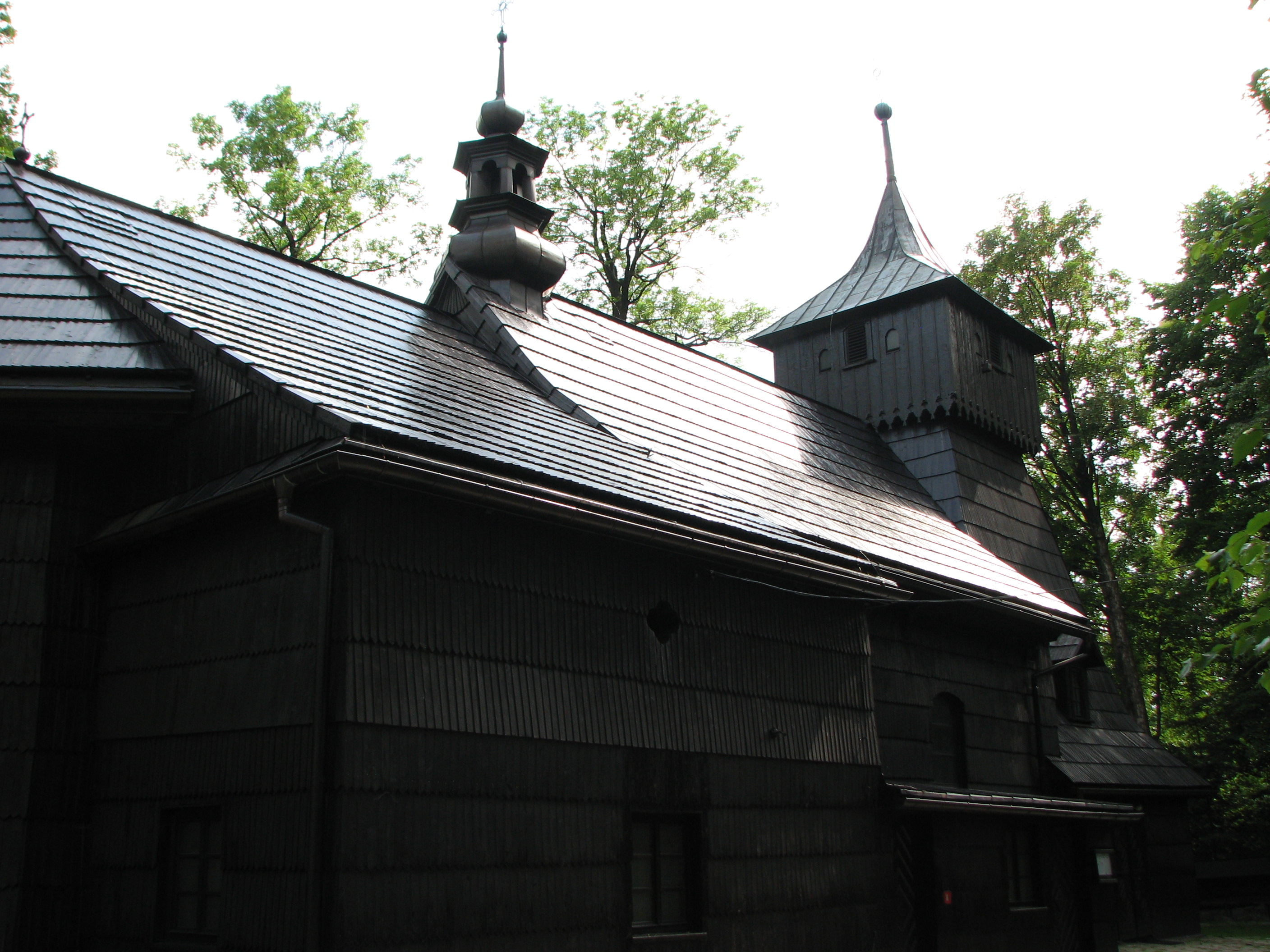 Church of Saint James in Szczyrk, No. 1 Kolorowa Street